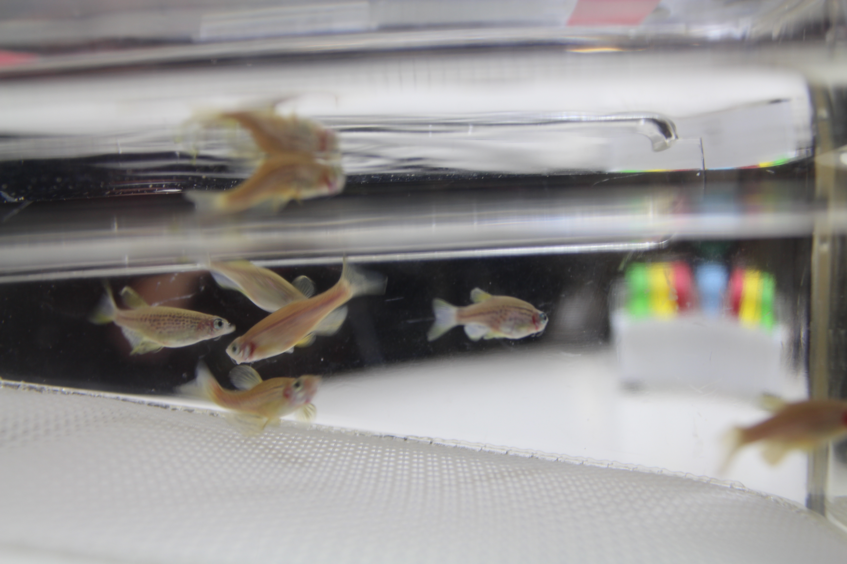 Zebra Fish laboratories, Weizmann's institute, Rehovoth, Israel This image was taken as part of the Elef Millim project trip to the laboratories in the Weizmann Institute of Science which was held on Friday, 15th April 2016. To view all images uploaded as part of the Elef Millim Project